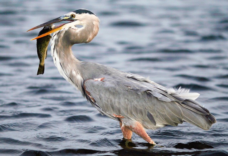 Great Blue Heron in St. Joseph Sound, Tarpon Springs, FL.